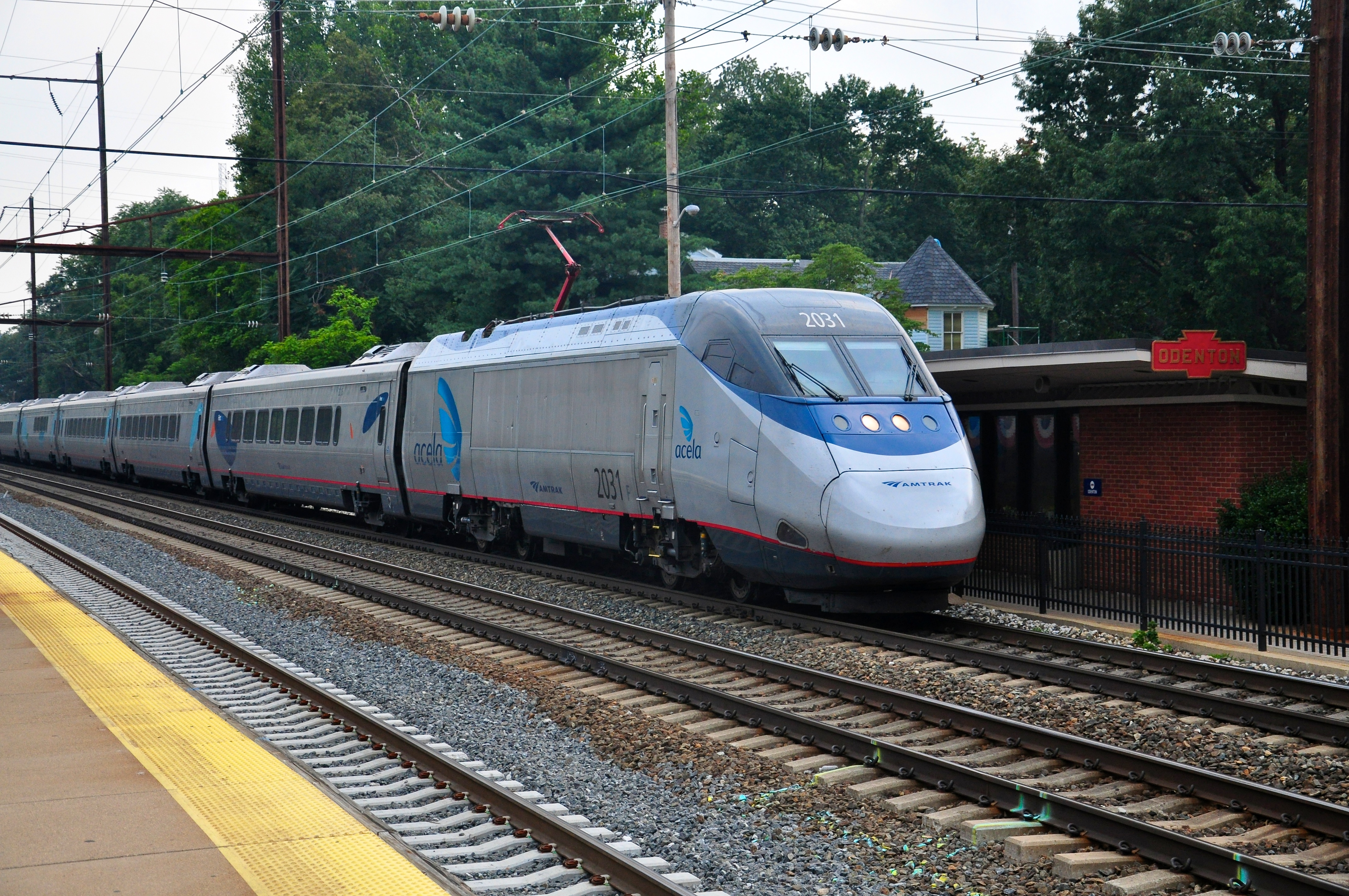 Acela rolls northbound through Odenton. Note that the NEC is running left handed in the afternoons due to Amtrak's tie replacement project on Track 1.